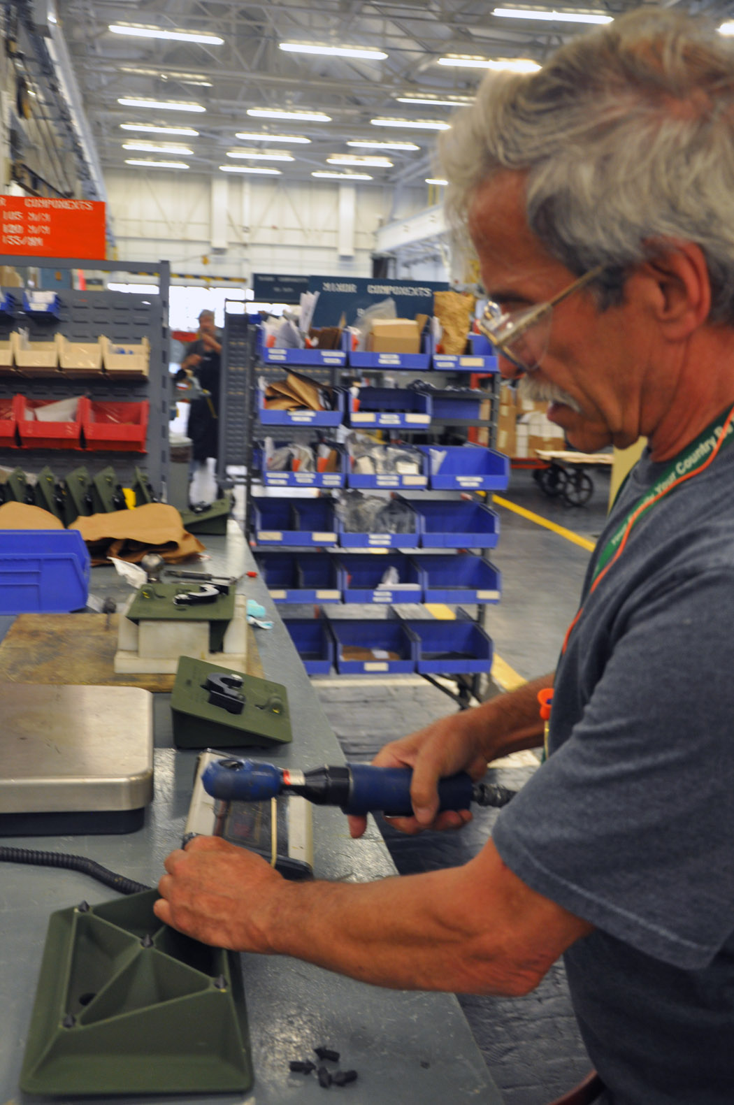 Arsenal bench assembly worker James Schlegel working on the M8 baseplate for a 60 mm mortar system. Schlegel has worked at the arsenal for more than 30 years.